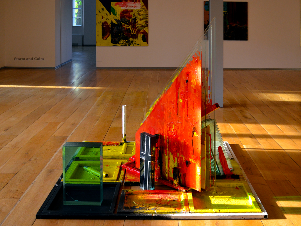 Vladimír Kopecký, Funeral Ceremony, 1993-2010